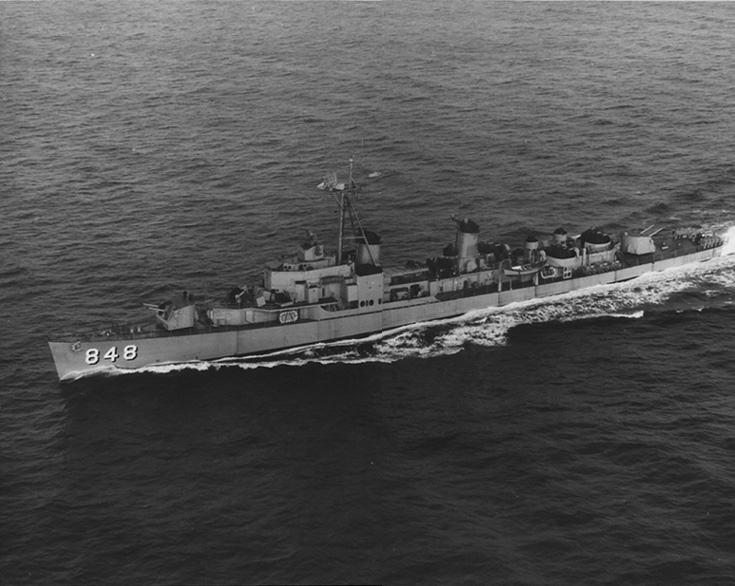 The U.S. Navy destroyer USS Witek (DD-848) in the mid-1950s.